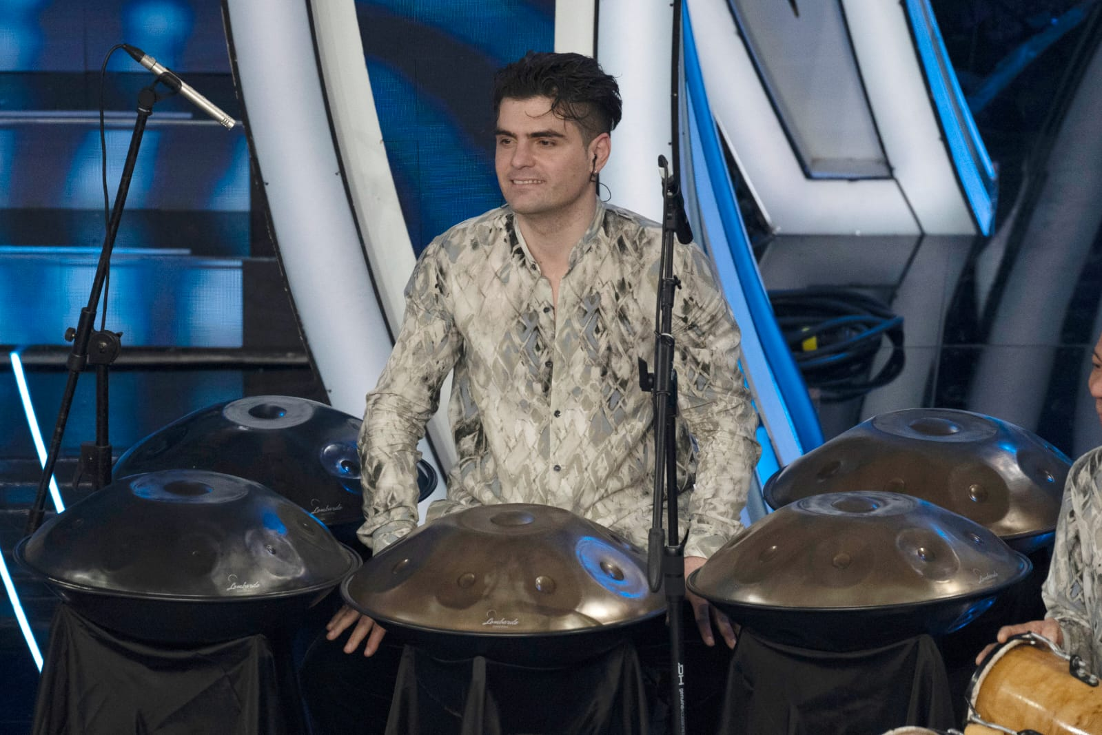 Percussionist Loris Lombardo with five hangs ( or handpans) on the stage of Ariston theather. Handpans are made by "Lombardo Handpan".